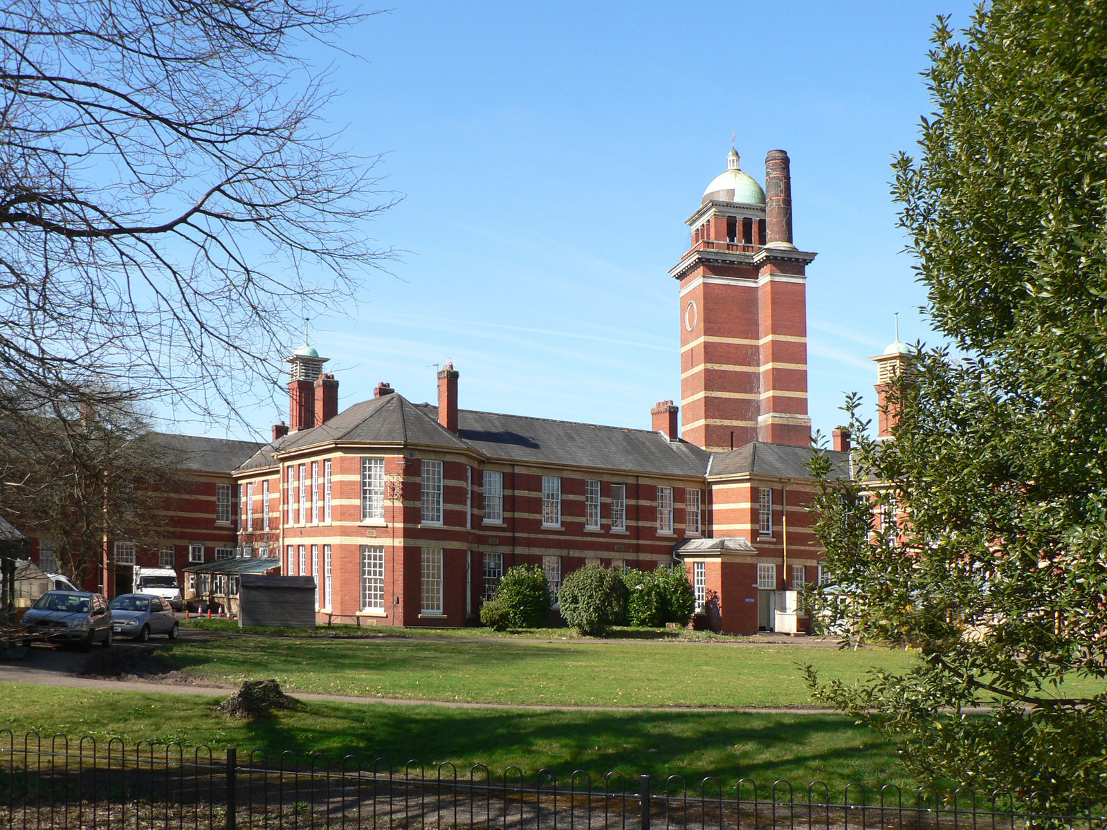 Whitchurch Hospital Opened in 1908 and named the Cardiff City Mental Hospital, it was renamed Whitchurch Hospital in 1948 and on being renamed Whitchurch Hospital in 1974 became the centre for psychiatric services of South Glamorgan Health Authority. The hospital also served as the Welsh Metropolitan War Hospital from 1915 to 1919 and as the Cardiff Royal Infirmary War Emergency Hospital from 1940 to 1945.